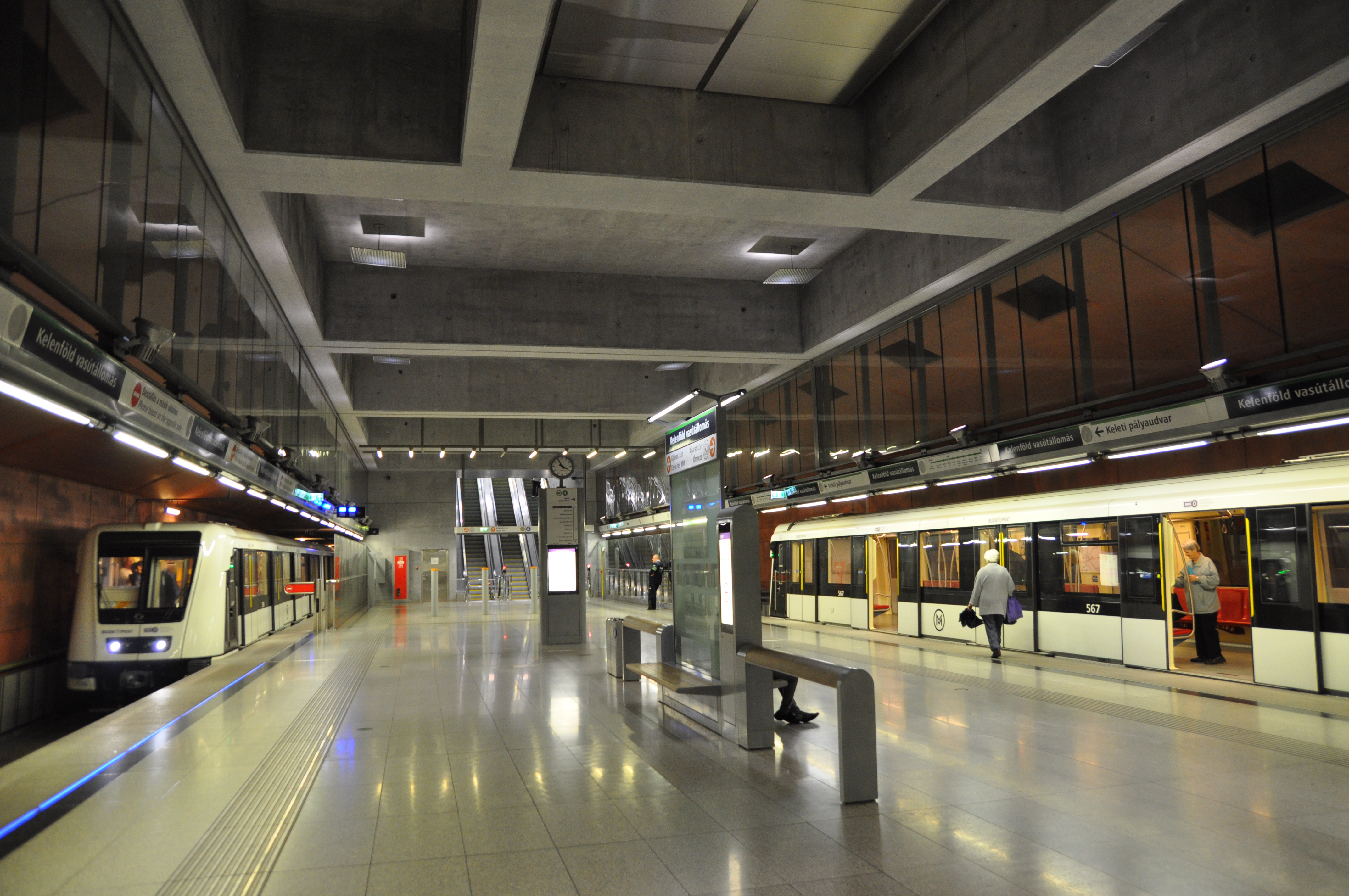 Budapest, metró 4, Kelenföld vasútállomás